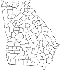 Adapted by Kmf164 from Image:GAMap-doton-Savannah.PNG, resized to 200px width and bkgd color to match infobox.